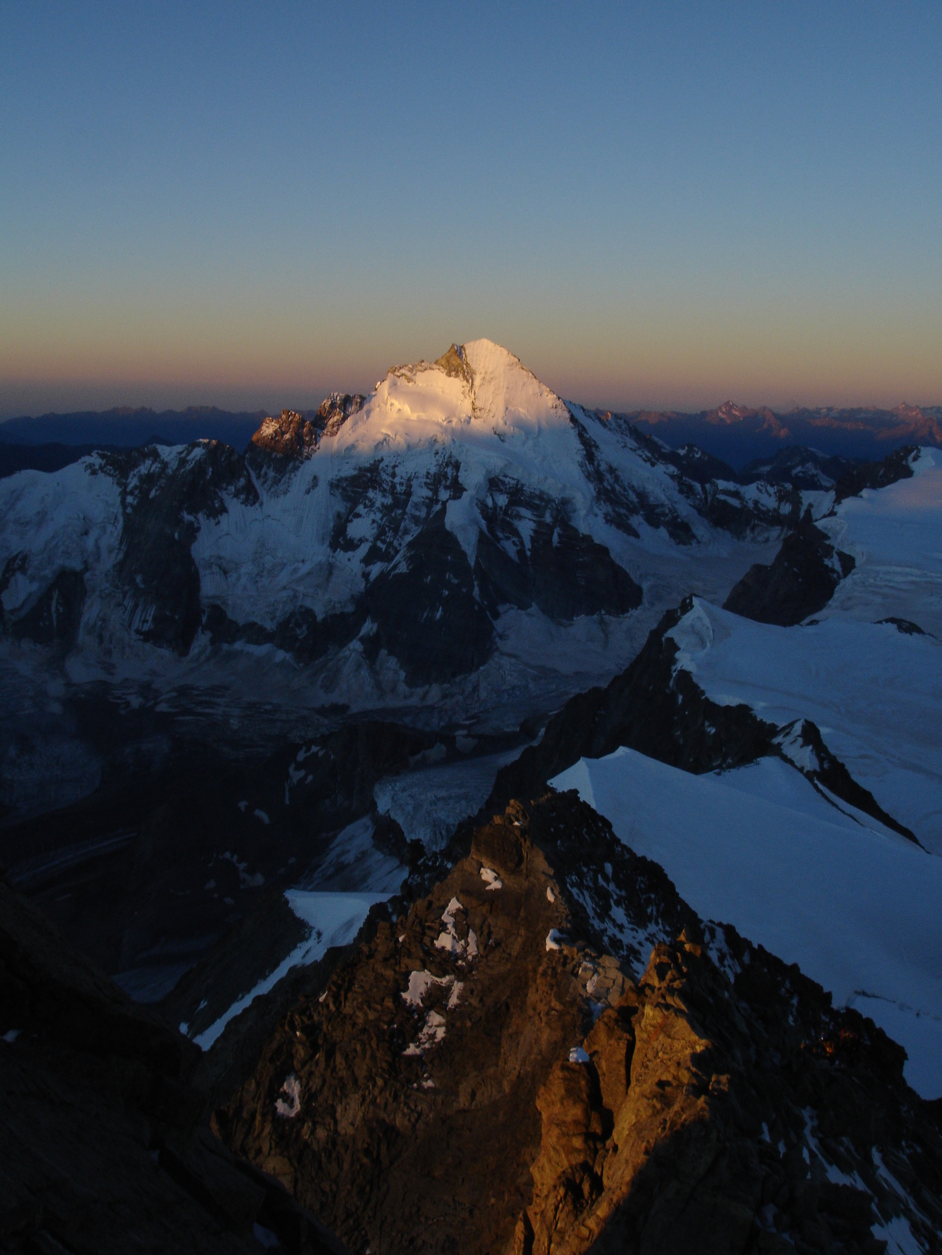 The Dent d'Herens from the Dent Blanche